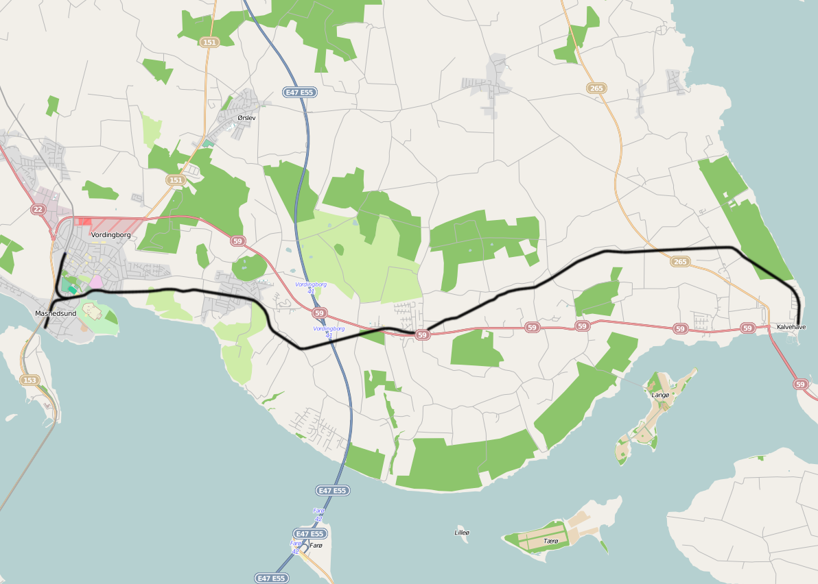 Railway line Madnedsund - Kalvehave